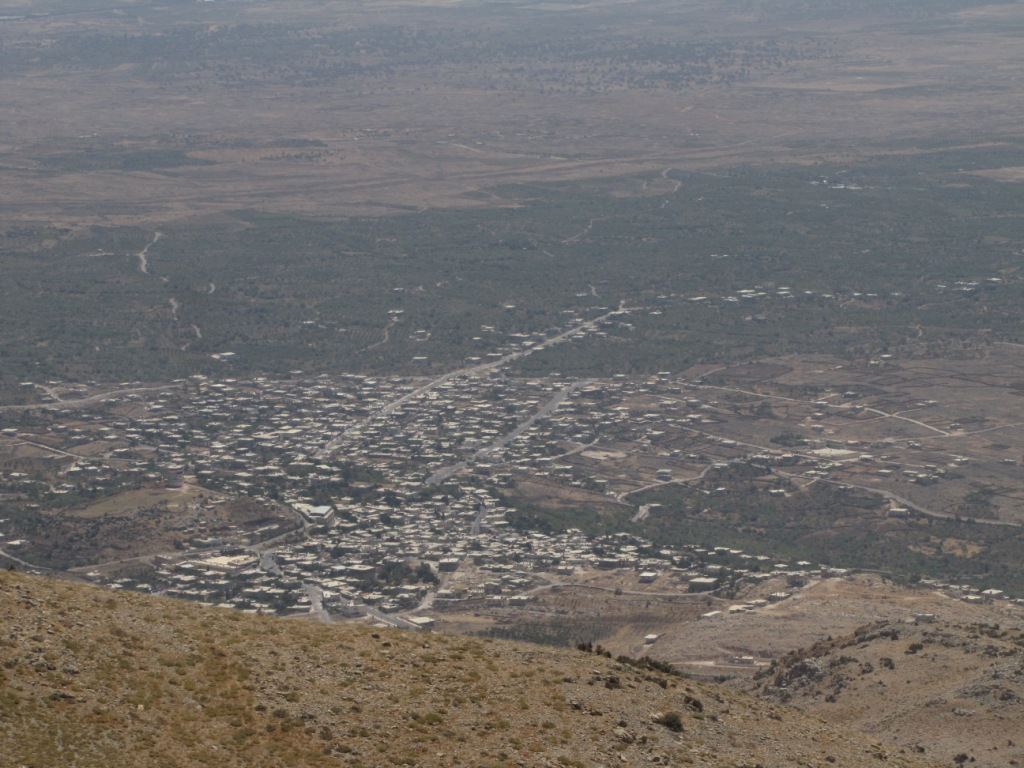 the Druze village Hader (Arabic: حضر, also spelled Hadar)southern Syria near the Israeli border